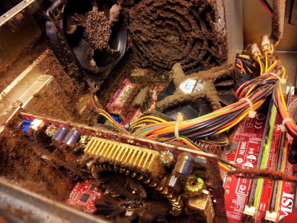 This is not what your Computer is supposed to look like from the inside. Dust has accumulated inside over a period of 4-8 years and done some damage in the process. If you look closely, you can see that the graphics card cooler fan has become so hot that it has completely melted off from itself